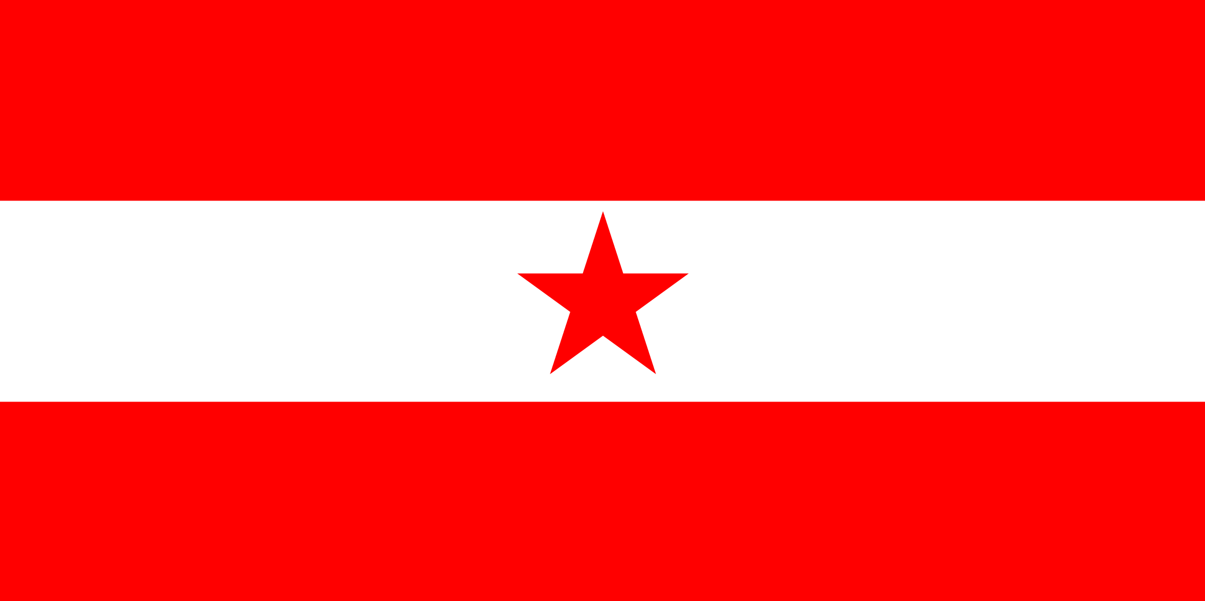 Flag of the Iskolat (1917-1918)